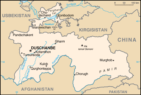 von CIA World Factbook